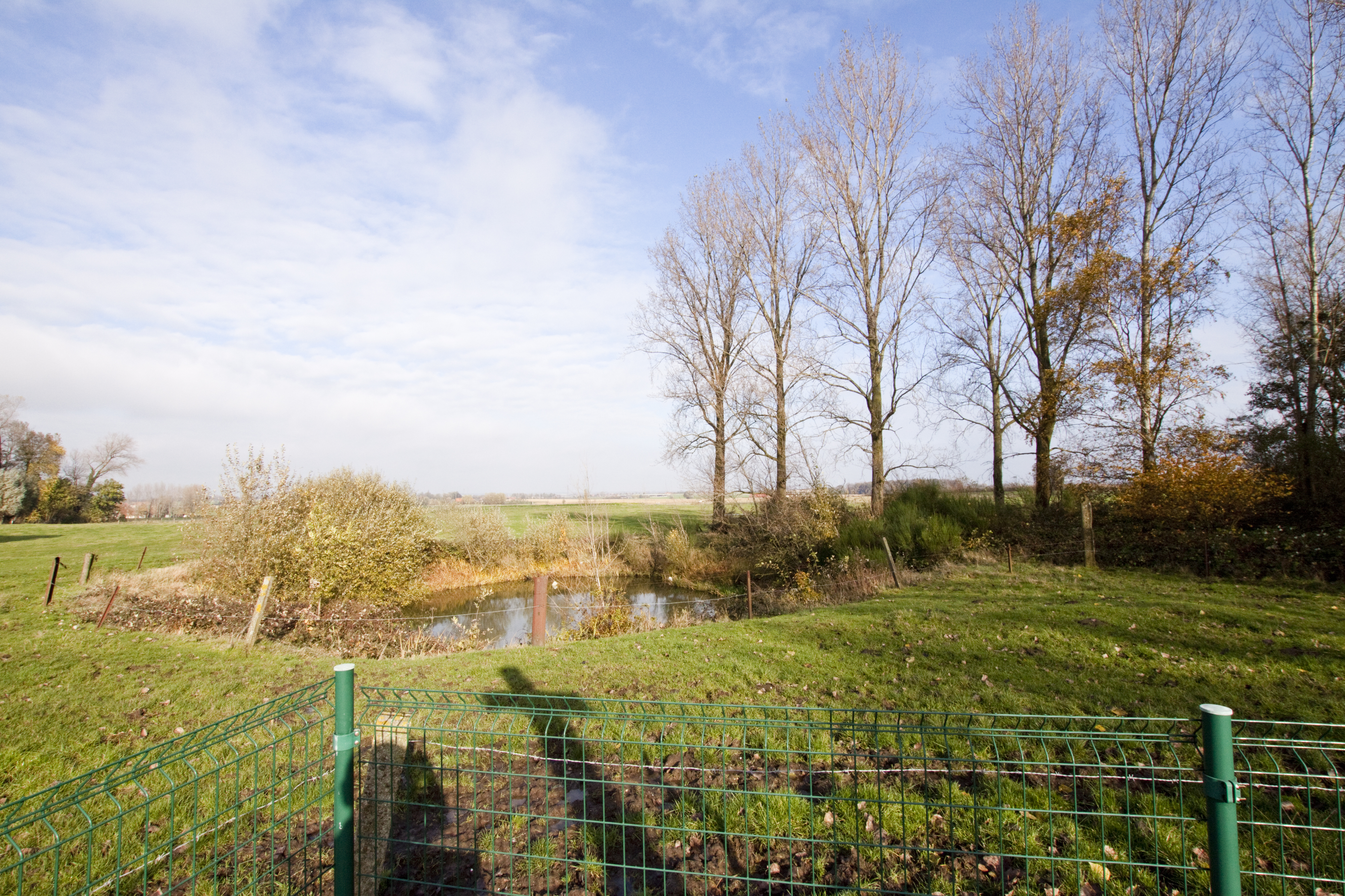 Ypres (Belgium - West Flanders) - RE Grave, Railway Wood : Mine crater at Railway Wood, located just behind the Cross of Sacrifice site